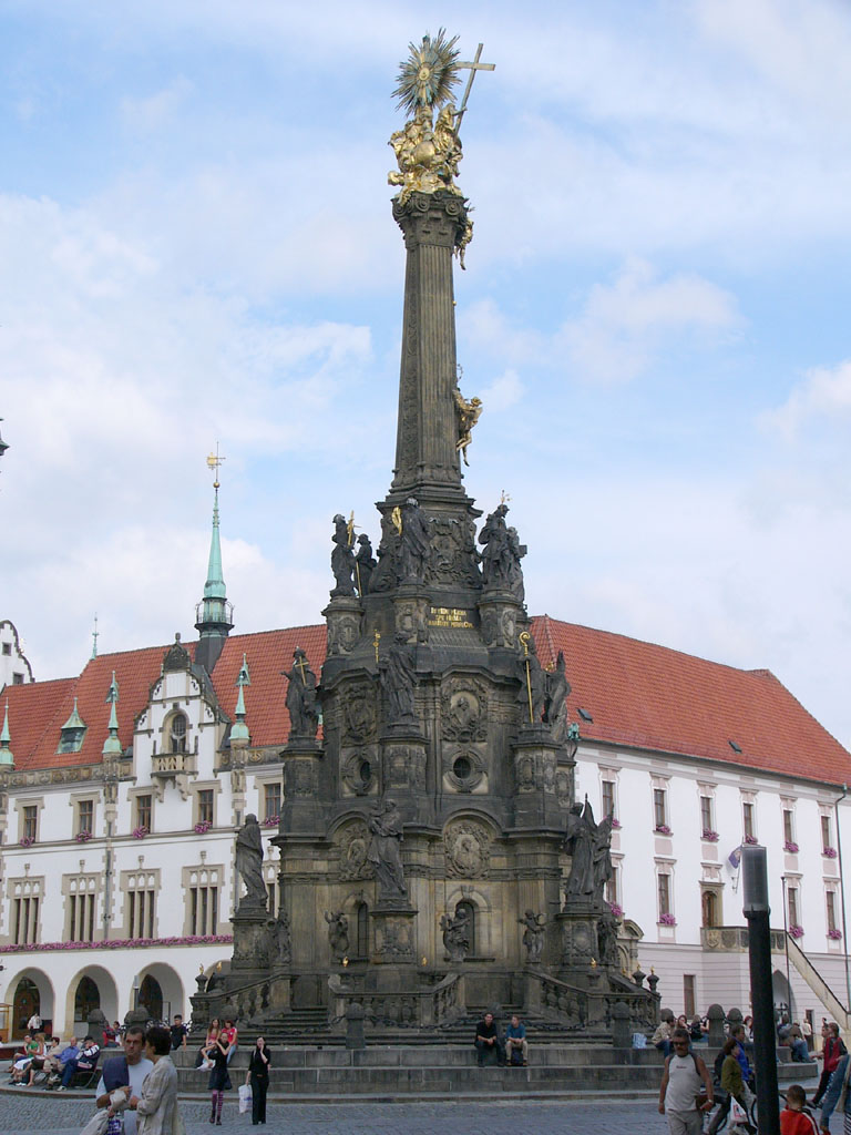 Holy Trinity Column in Olomouc (Czech Republic).